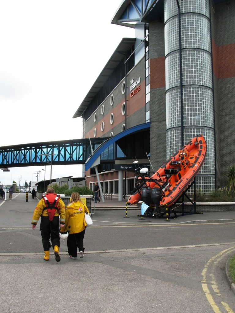 Atlantic 85 lifeboat B815 on display outside The Lifeboat College of the Royal National Lifeboat Institution in Poole, Dorset, England.